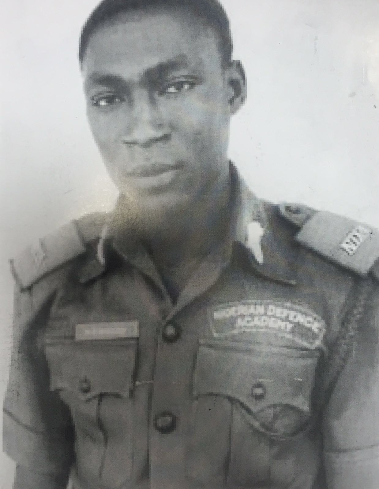 Alex Sabundu Badeh in the 70's